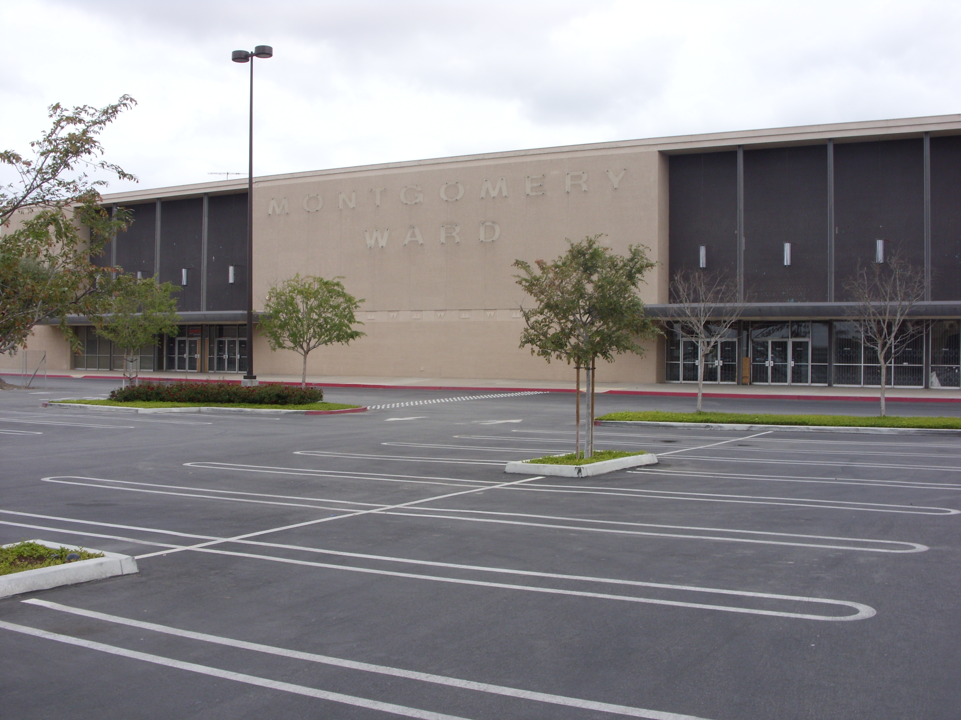 Vacant Montgomery Ward Store at Bella Terra mall in Huntington Beach, CA left standing during the demolition of the enclosed Huntington Center. The store opened in 1966 as an anchor tenant to the former Huntington Center and closed in 2001 along with the rest of the chain. When Huntington Center was demolished and redeveloped into Bella Terra, the building sat vacant and detached until December 2010 when it was demolished for the proposed mixed use Village at Bella Terra development. {1}